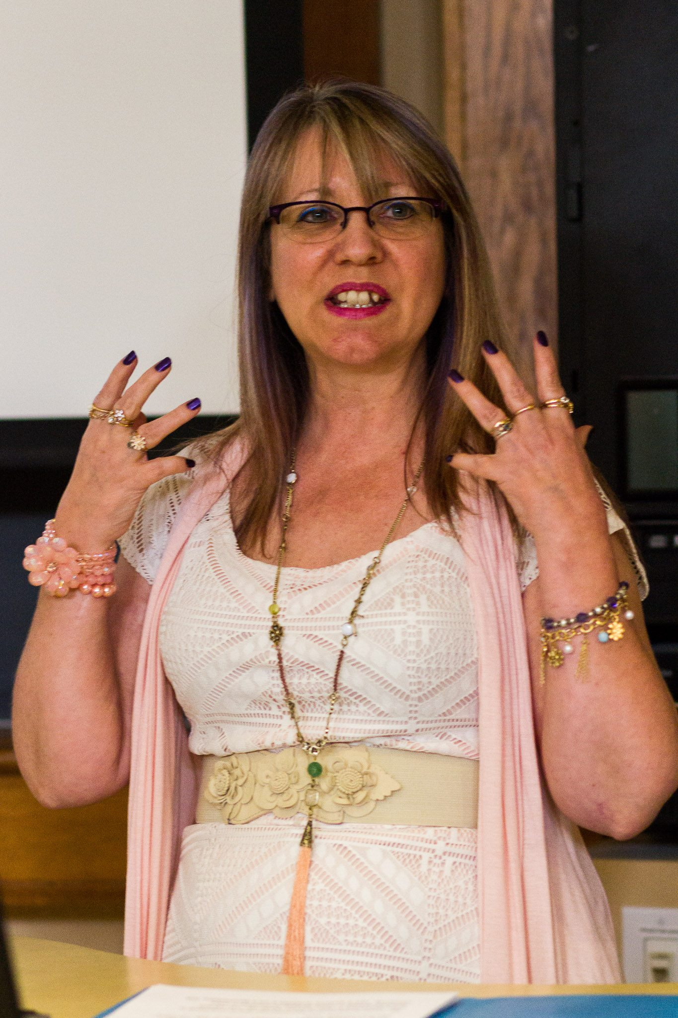 Vyckie Garrison speaks at SASHAcon 2015 in Columbia, Missouri.